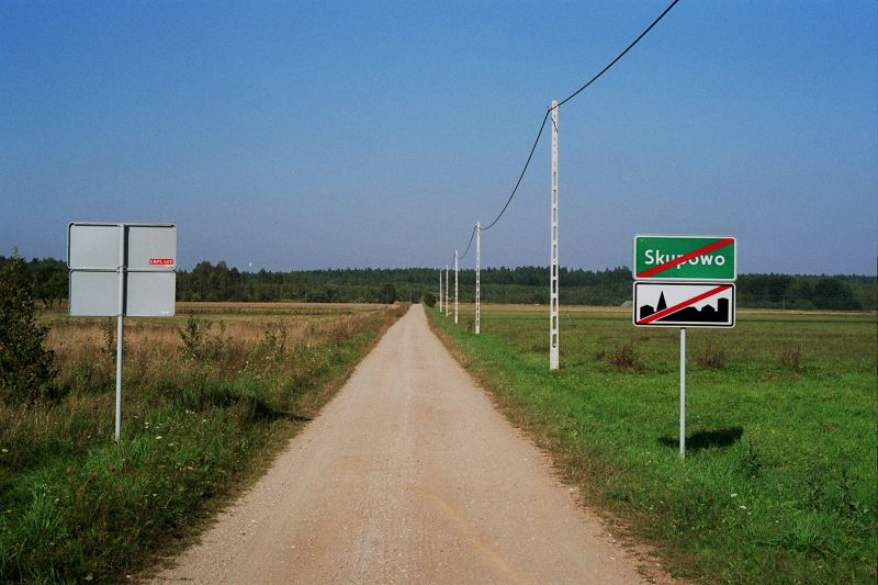 Road from Skupowo to Zabłotczyzna, Narewka commune, Poland. Traffic signs D-43 and E-18a mark end of village Skupowo.